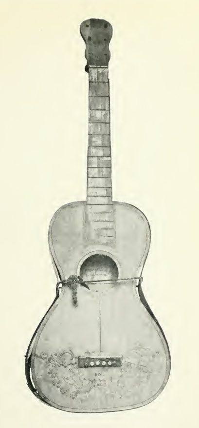 Charles Gonoud's guitar. Other information In 1914, when the photo was taken, the instrument was in the possession of the Museum of Paris Opera.